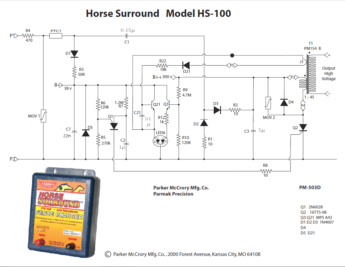 Parmak's HS 100 Horse Surround electrical circuit